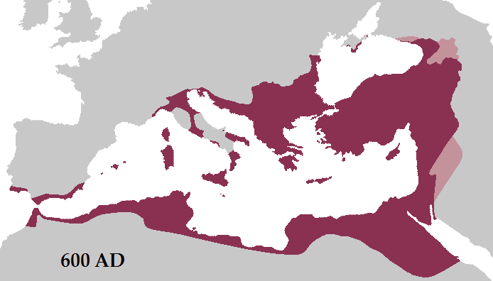 Map of the Roman Empire (purple) and its vassals (pink) in 600 AD during the reign of Emperor Maurice. The vassals are the Abasgians (top), the Kingdom of Iberia (northeast) and the Ghassanids (east)